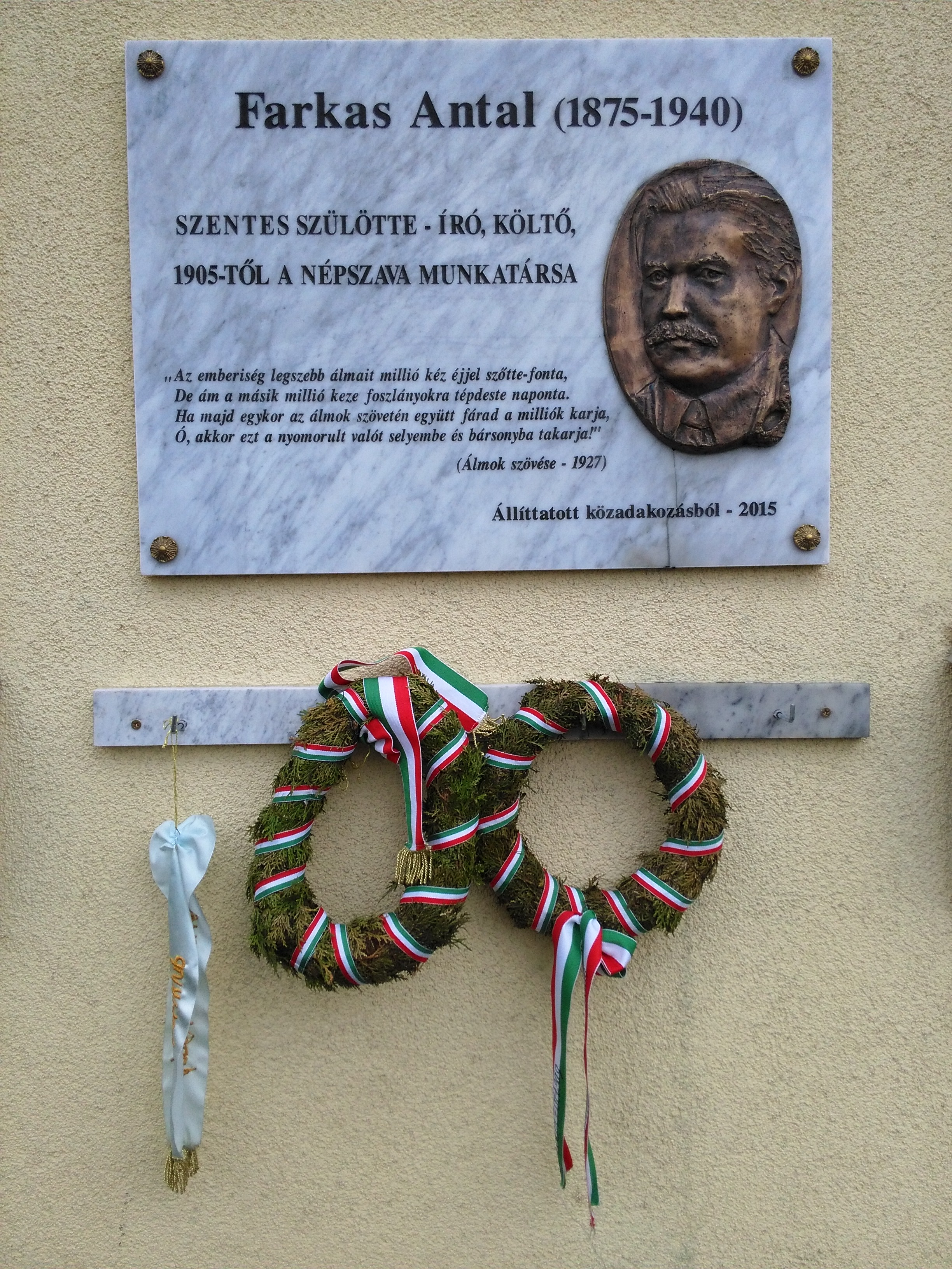 Plaque of Farkas Antal (1875-1940) poet, in Szentes city, a street named after him